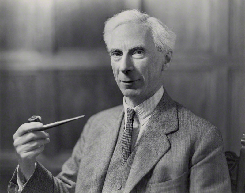 Bertrand Russell, by Bassano (1936).